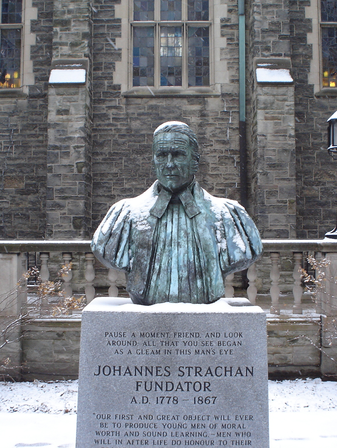 The bust of Strachan in the Trinity quad, Trinity College, Toronto, as seen on a winter morning.